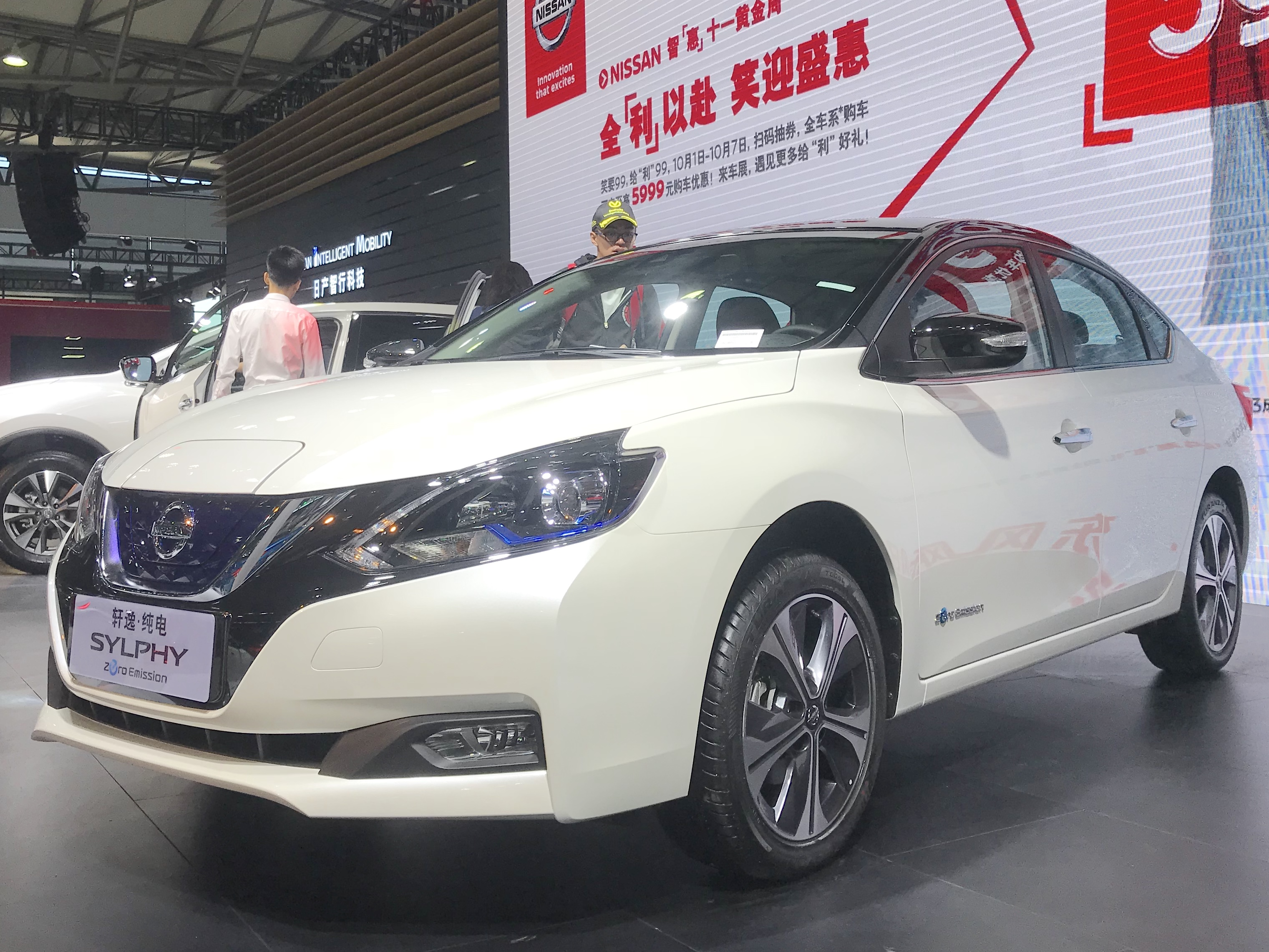 Nissan Sylphy EV front